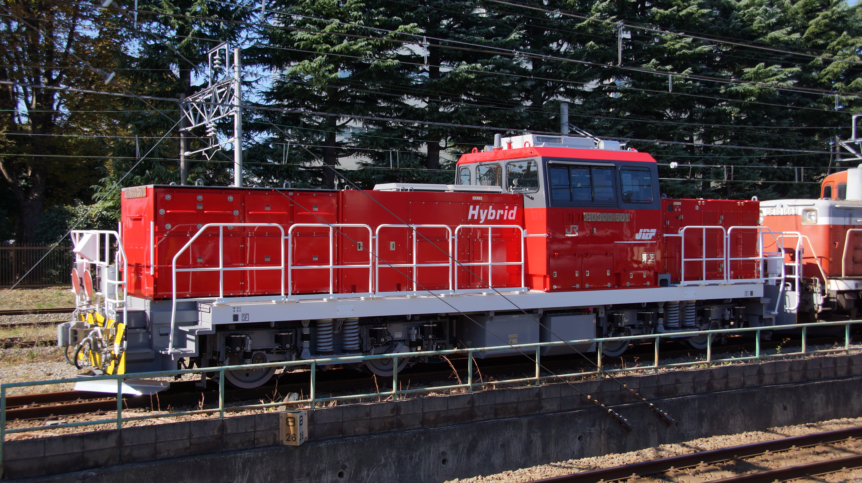 JR Freight Class HD300-500 hybrid diesel locomotive HD300-501 at Kita-Fuchu on delivery from the Toshiba factory there to JR Freight's Naebo Depot in Hokkaido